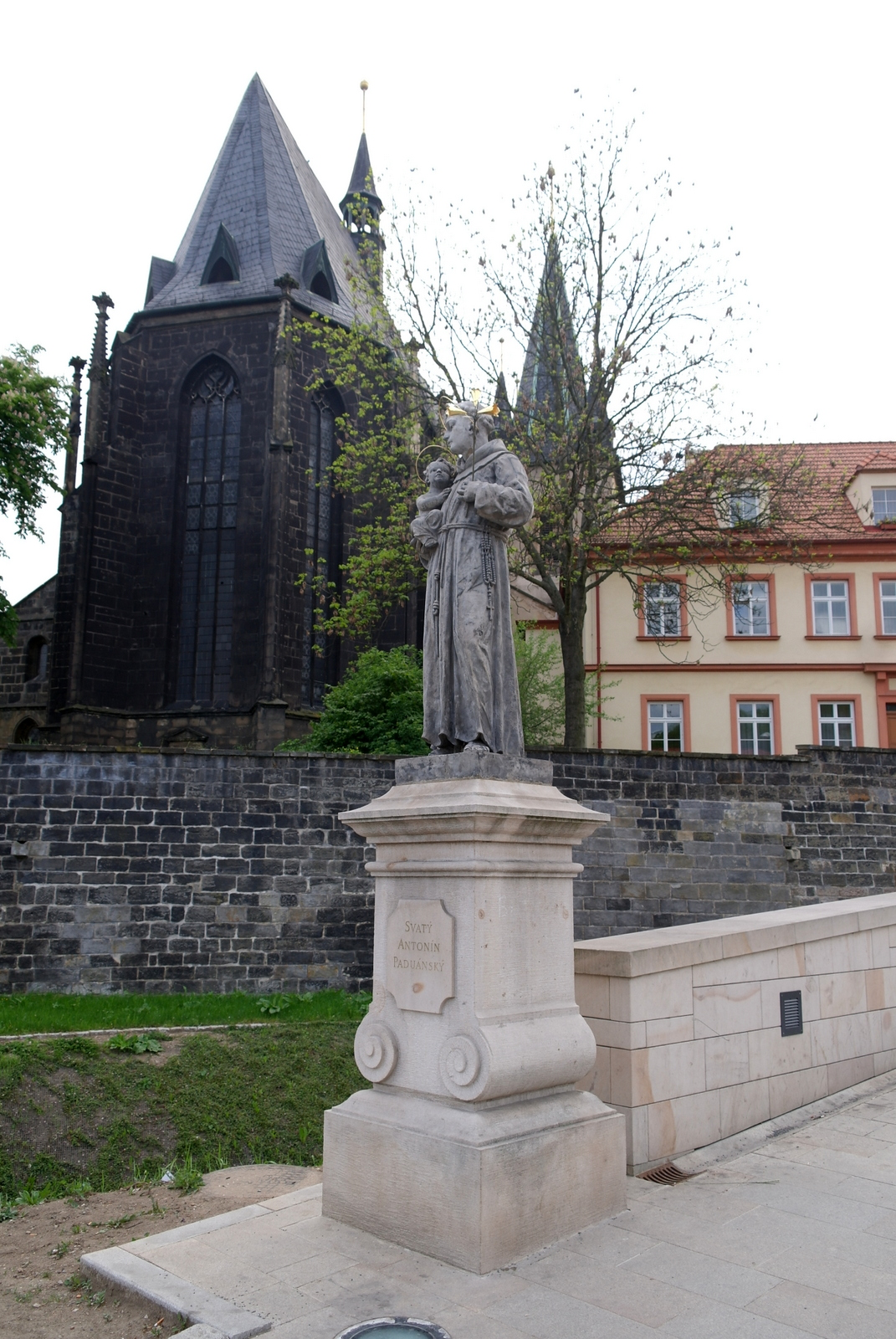 Church of St. Gotthard, Slaný, view from the reconstructed bridge across the moat, with the statue of saint Anthony of Padua